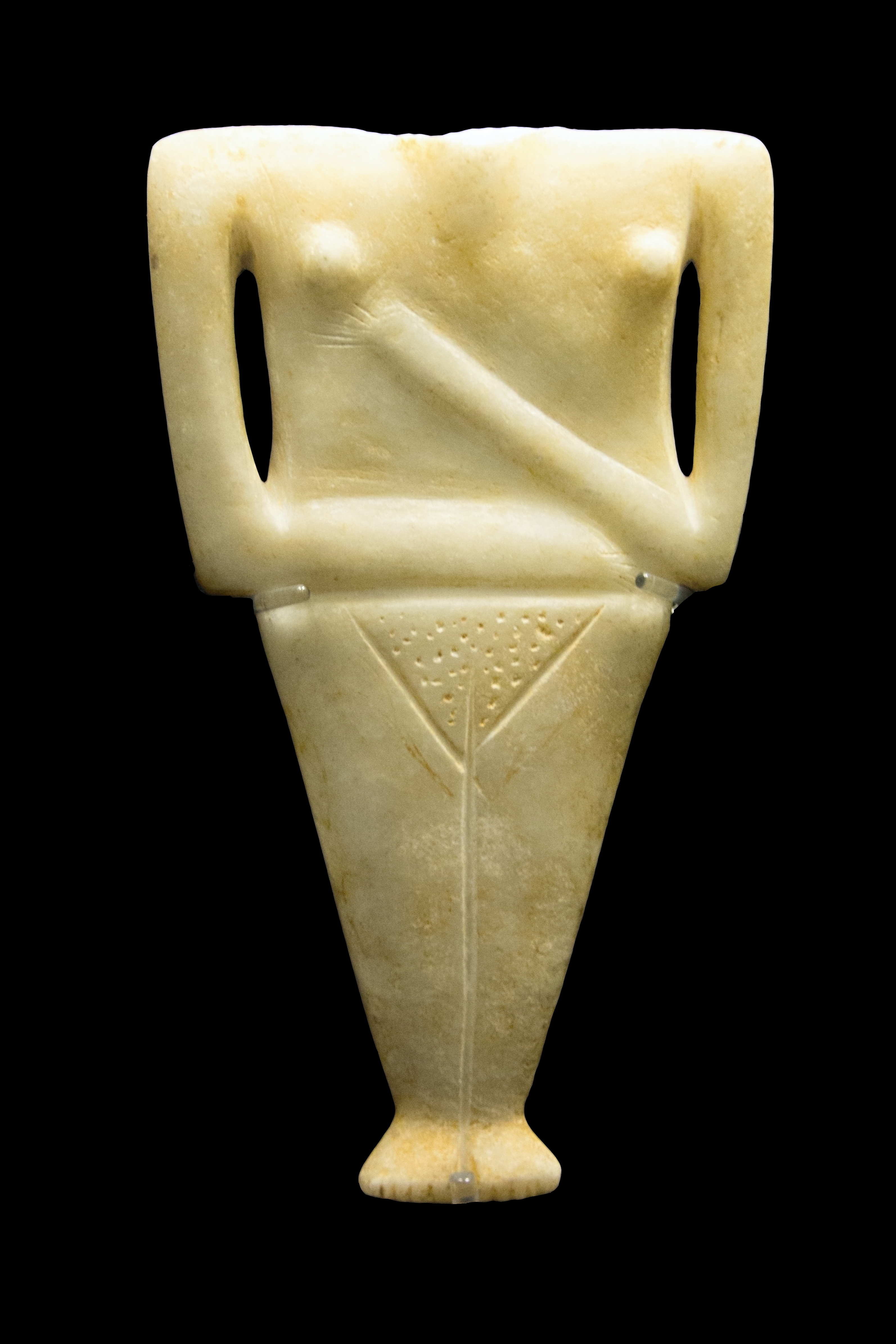 Cycladic figurine of a woman, marble, Chalandriani type. Early Bronze Age, EC II, 2400 – 2200 BC, British Museum GR 1875.3-13.2, BM Cat Sculpture A14.